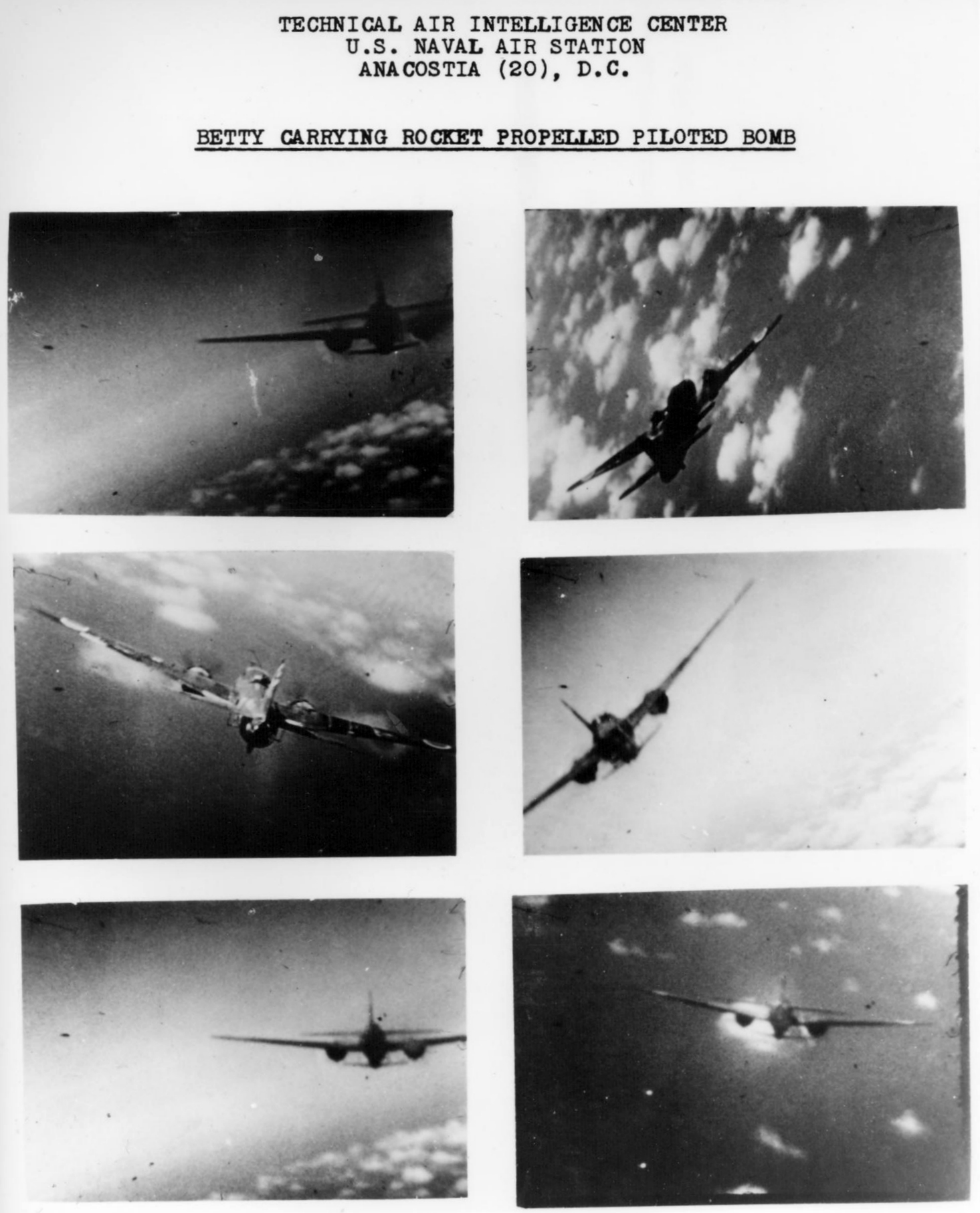 Stills from gun camera footage of an attack on an Imperial Japanese Navy Mitsubishi G4M2e Model 24 Tei ("Betty") bomber carrying a Kugisho/Yokosuka MXY-7 Ohka ("Baka") Model 11 manned rocket-propelled suicide plane.